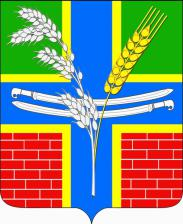 Coat of arms of Kirovskoye municipality,Slaviansk Raion,Krasnodar Krai